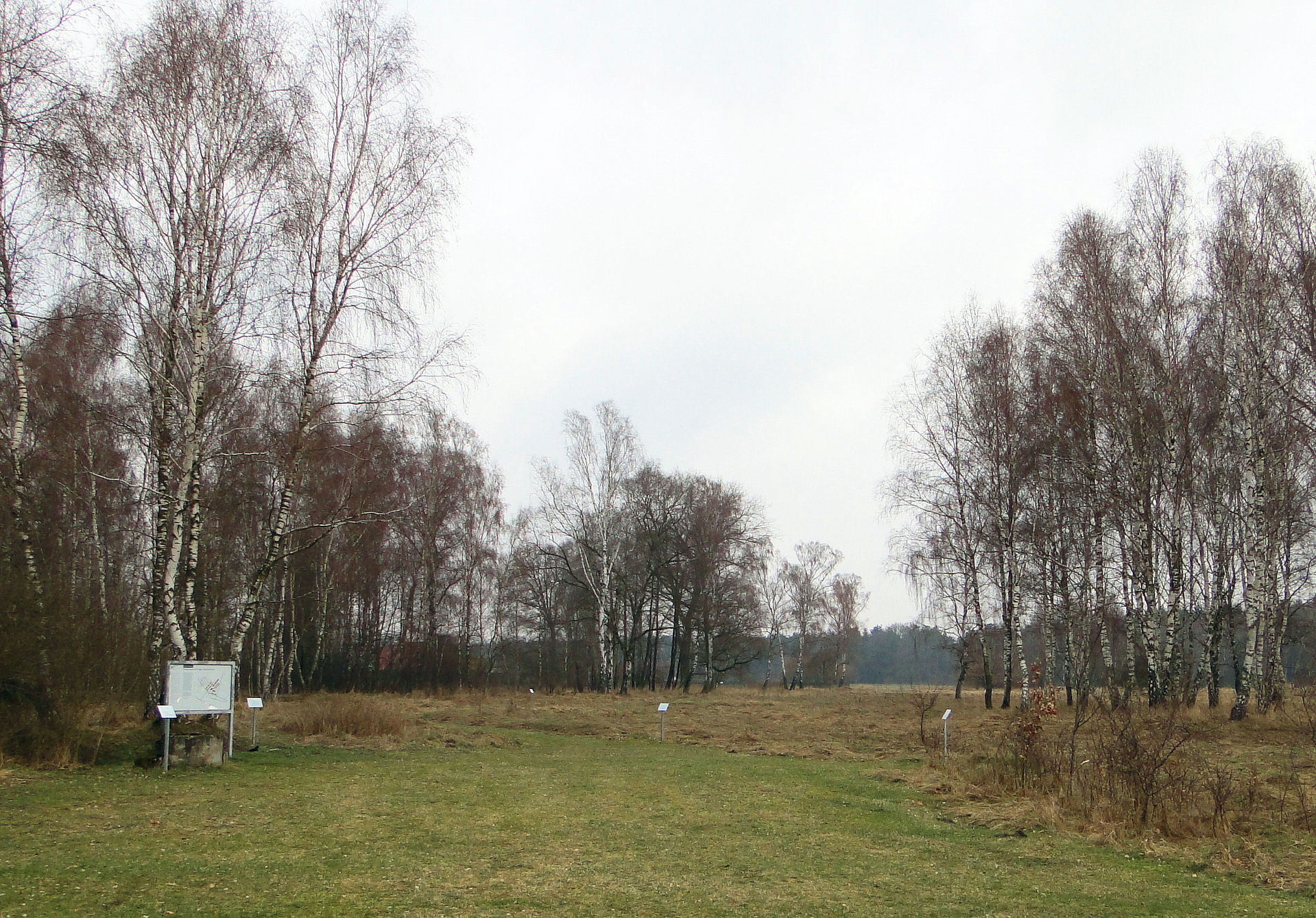 Former concentration camp aera near the airport in Neustadt-Glewe, disctrict Ludwigslust, Mecklenburg-Vorpommern, Germany